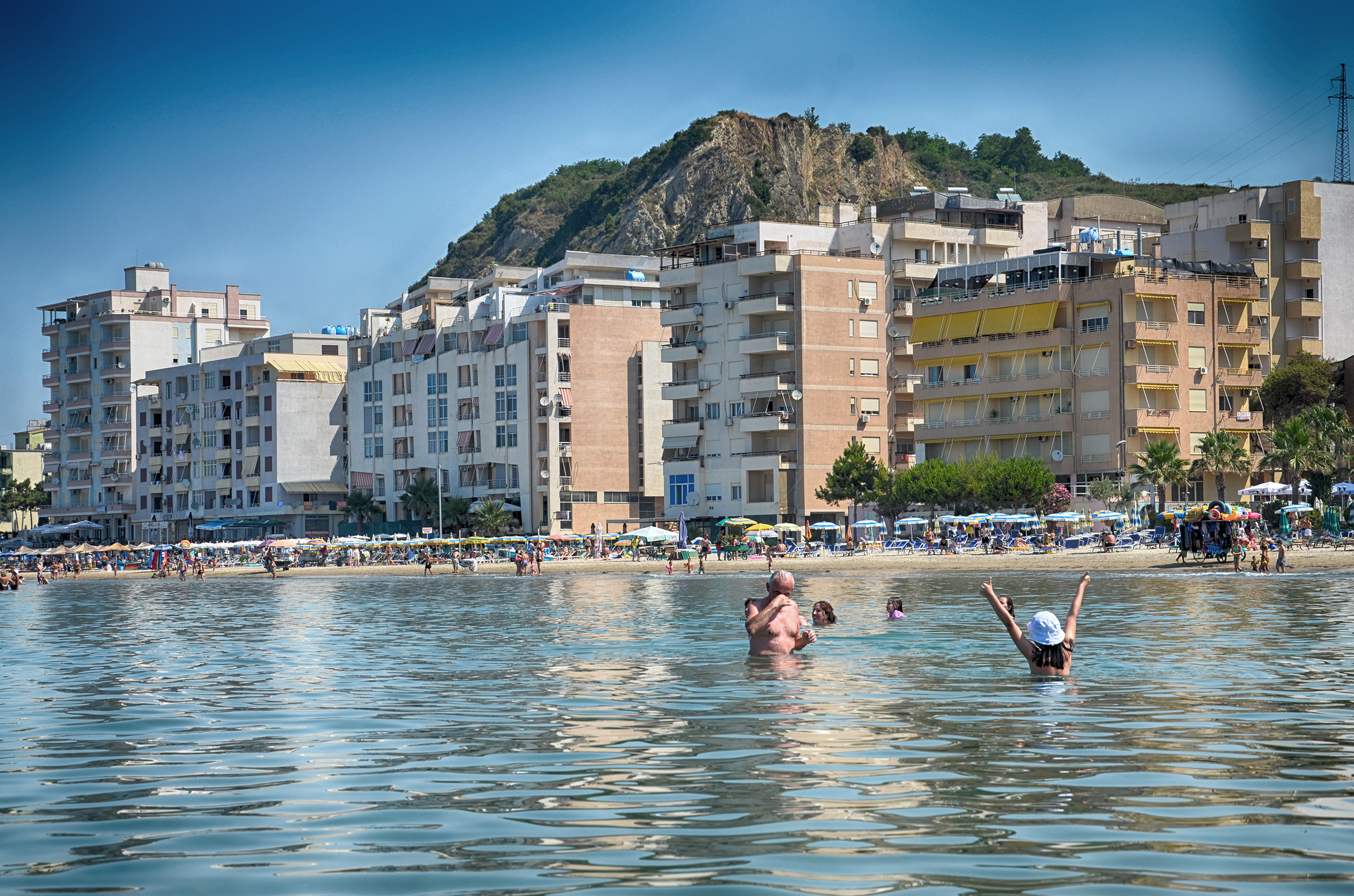 The beach by Shkëmbi i Kavajës, Albania